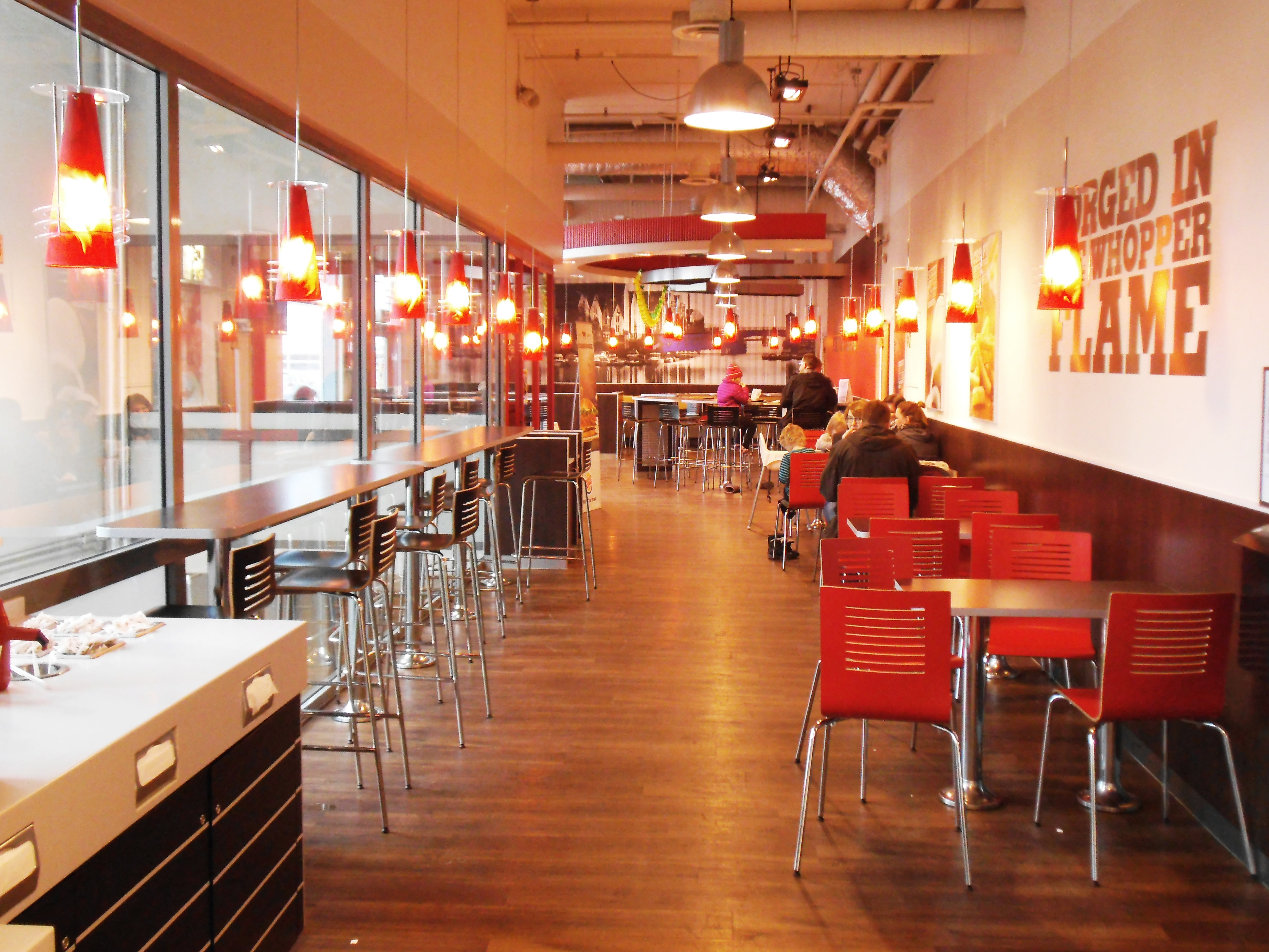 Interior in a Burger King restaurant in Tiller, Trondheim, Norway.